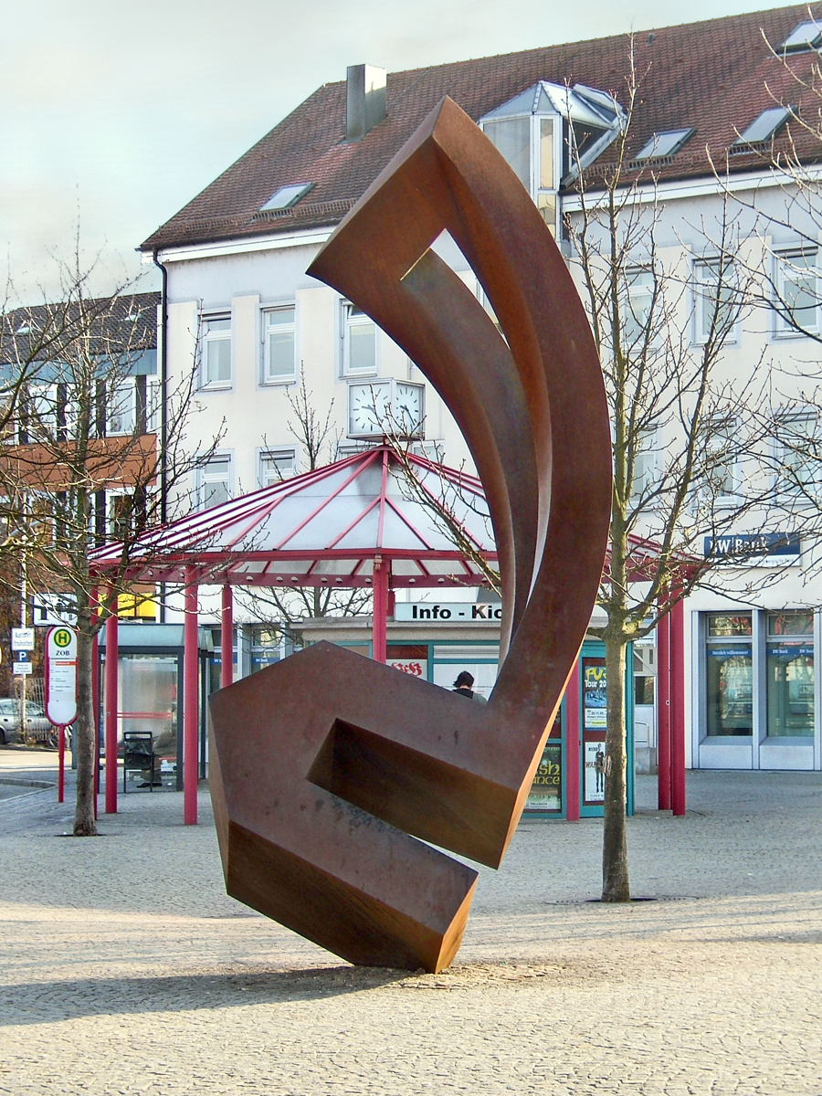 sculpture in Schorndorf, Germany